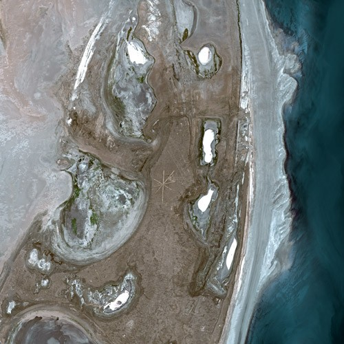 Aral Sea SPOT by SPOT Satellite